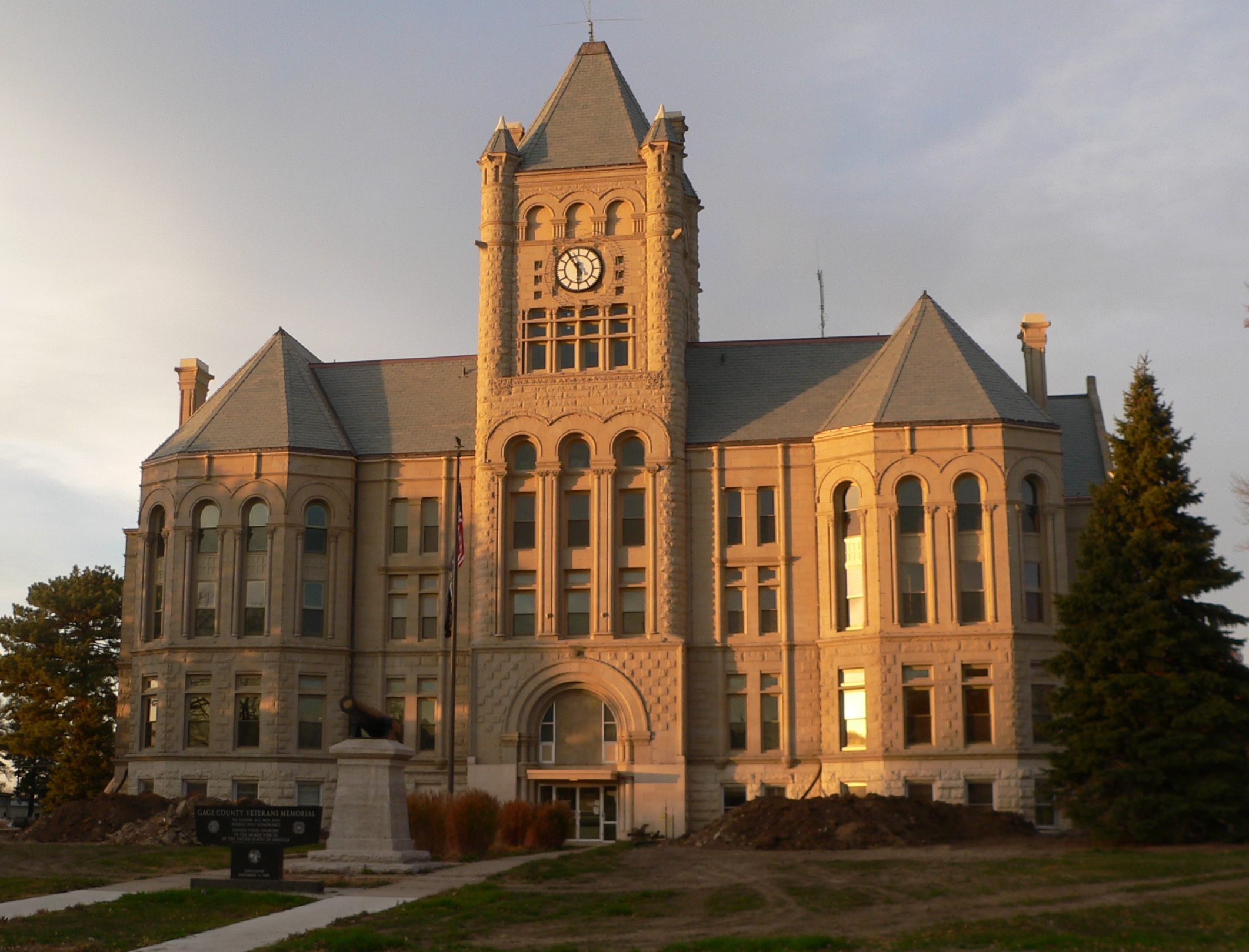 Gage County Courthouse in Beatrice, Nebraska: seen from the south.